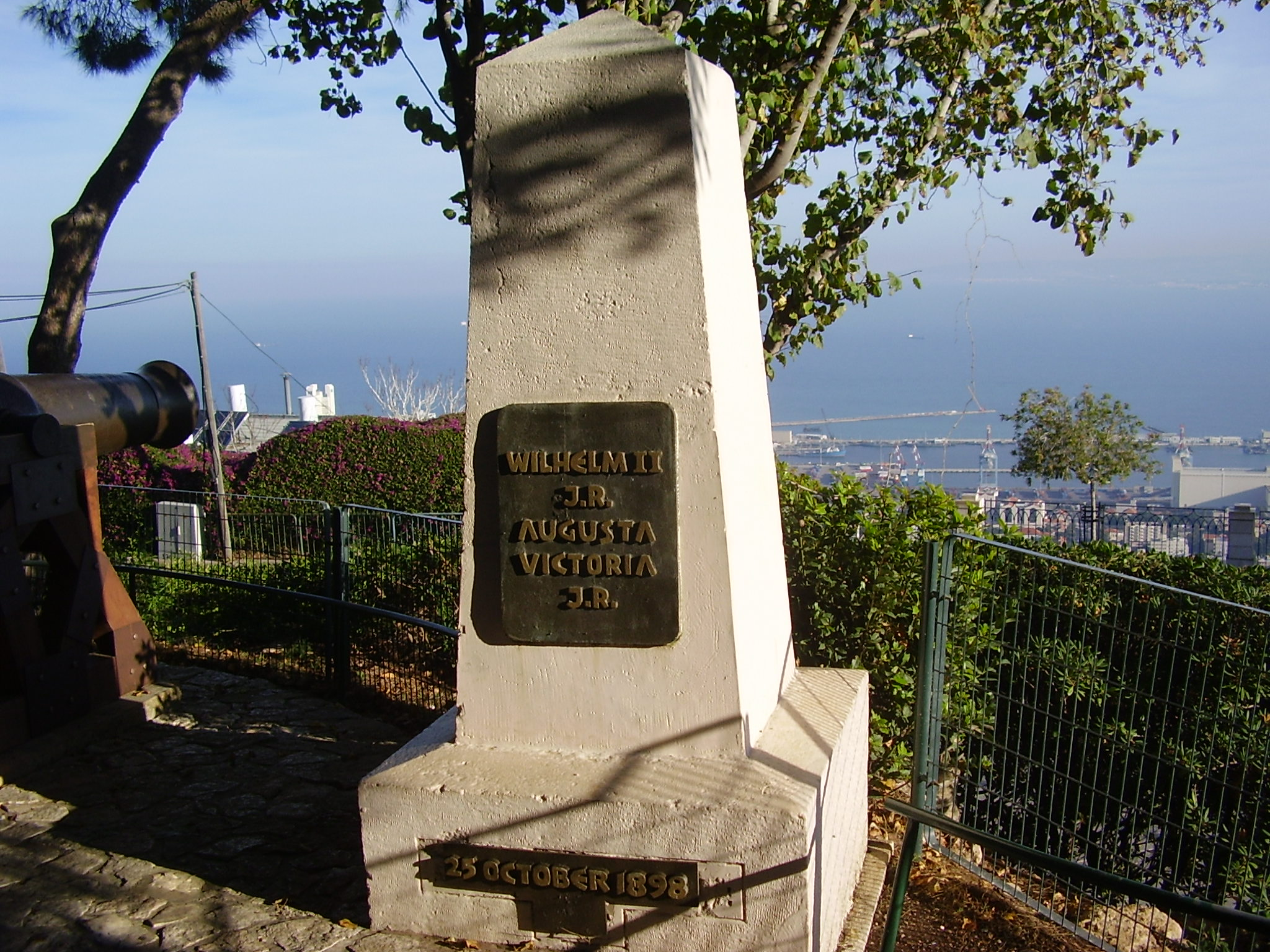 kaiser wilhelm the second obelisk in haifa